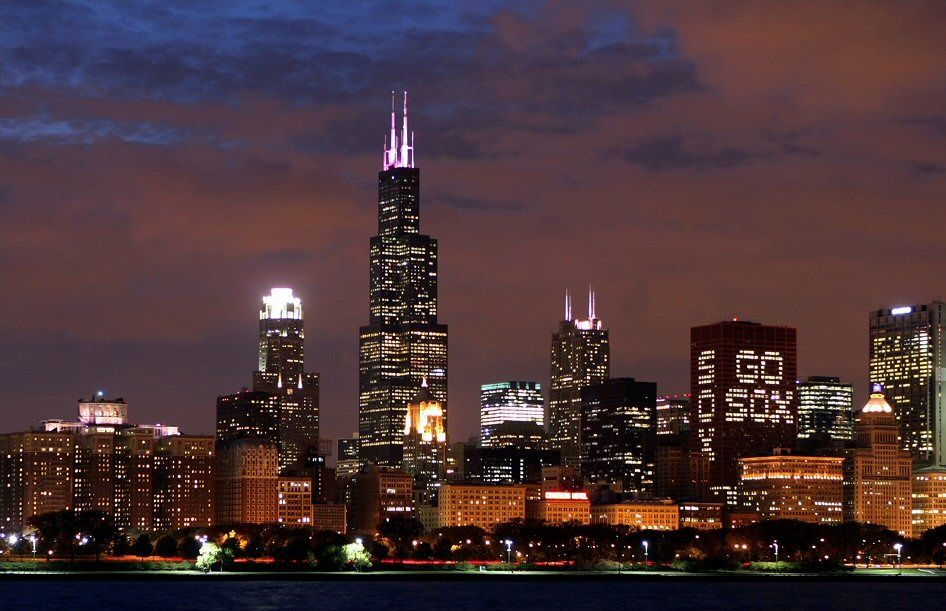 Part of the skyline of Chicago on the eve of a Chicago White Sox baseball game. Taken from the Adler Planetarium.